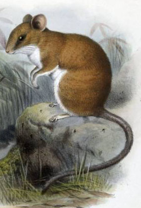 left: Alston's Brown Mouse (Scotinomys teguina) right: Sumichrast's vesper rat (Nyctomys sumichrasti)